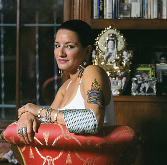 Mexican-American writer Sandra Cisneros